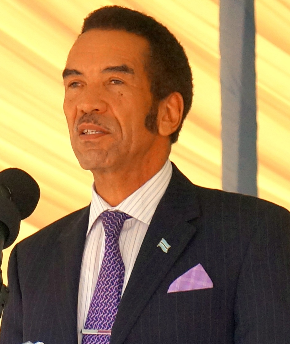 Ian Khama